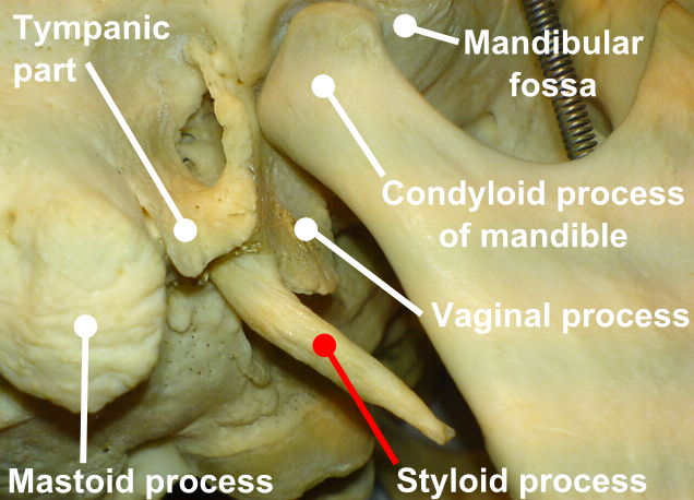 Processus styloideus of Pars petrosa ossis temporalis